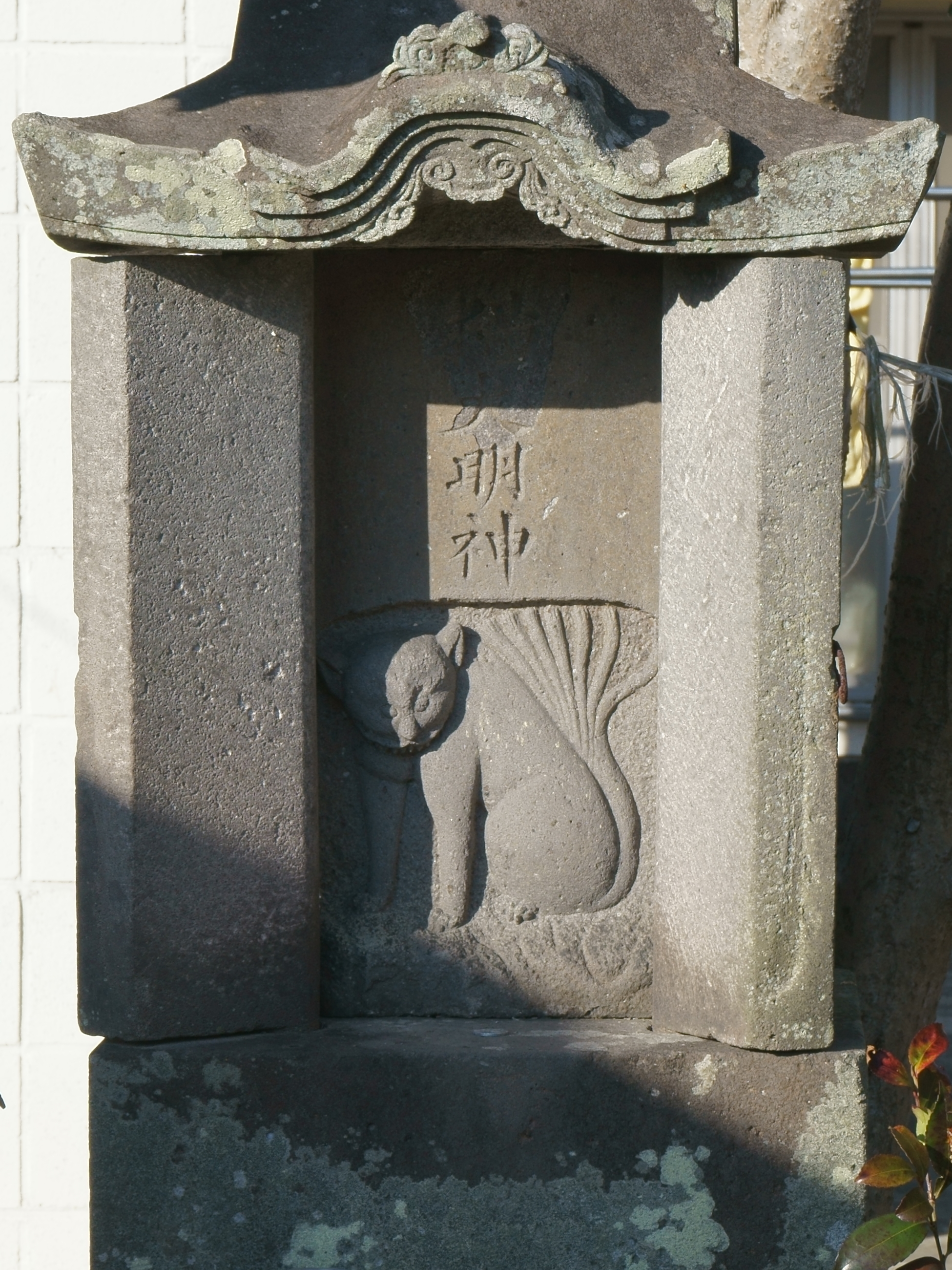 Nekozuka(a small temple of Bakeneko, a shapeshifting cat) at Shurinji Temple in Shiroishi town, Saga prefecture.